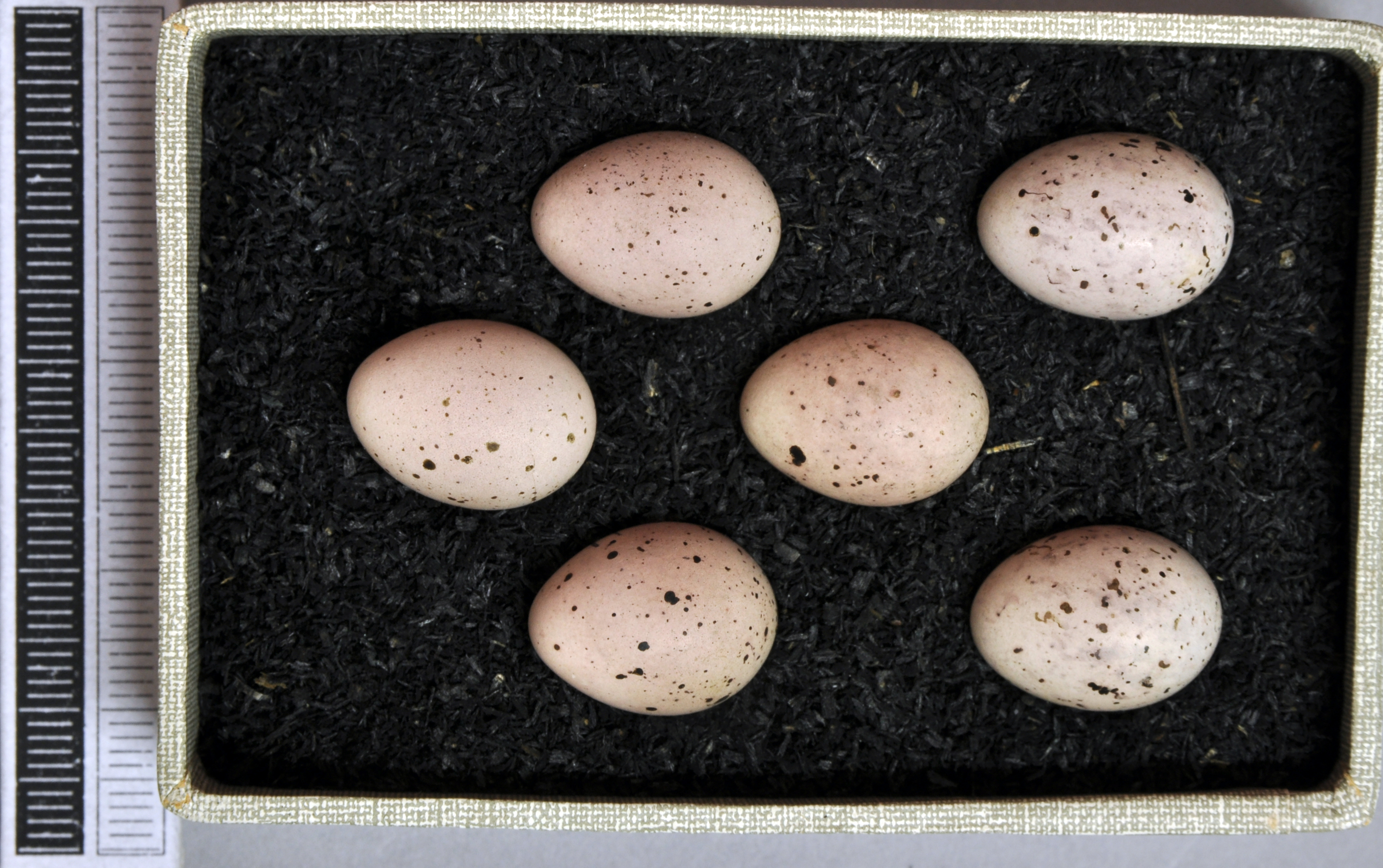 Icterine warbler Hippolais icterina , egg, Coll. Museum Wiesbaden